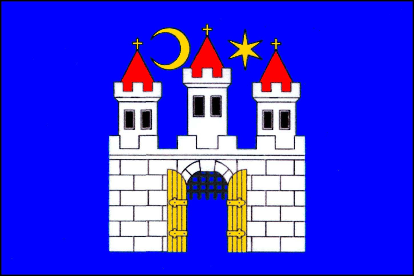 Municipal flag of Blovice town, Plzeň-South District, Czech Republic.